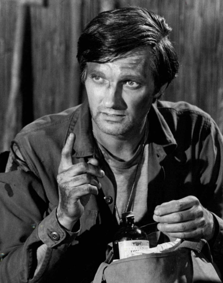 Photo of Alan Alda as Hawkeye from the television program M*A*S*H. The episode, "Hawkeye", deals with his being injured in a jeep accident and rescued by a Korean family that knows no English. Hawkeye delivers a monologue in English, much to the family's amusement and confusion.